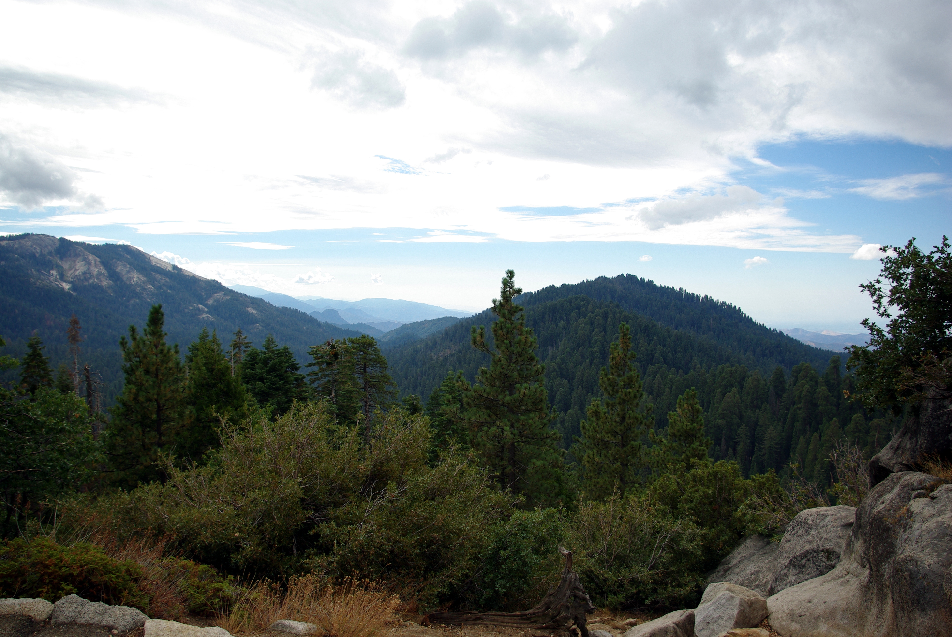 Redwood Mountain Grove, in Kings Canyon National Park and Giant Sequoia National Monument